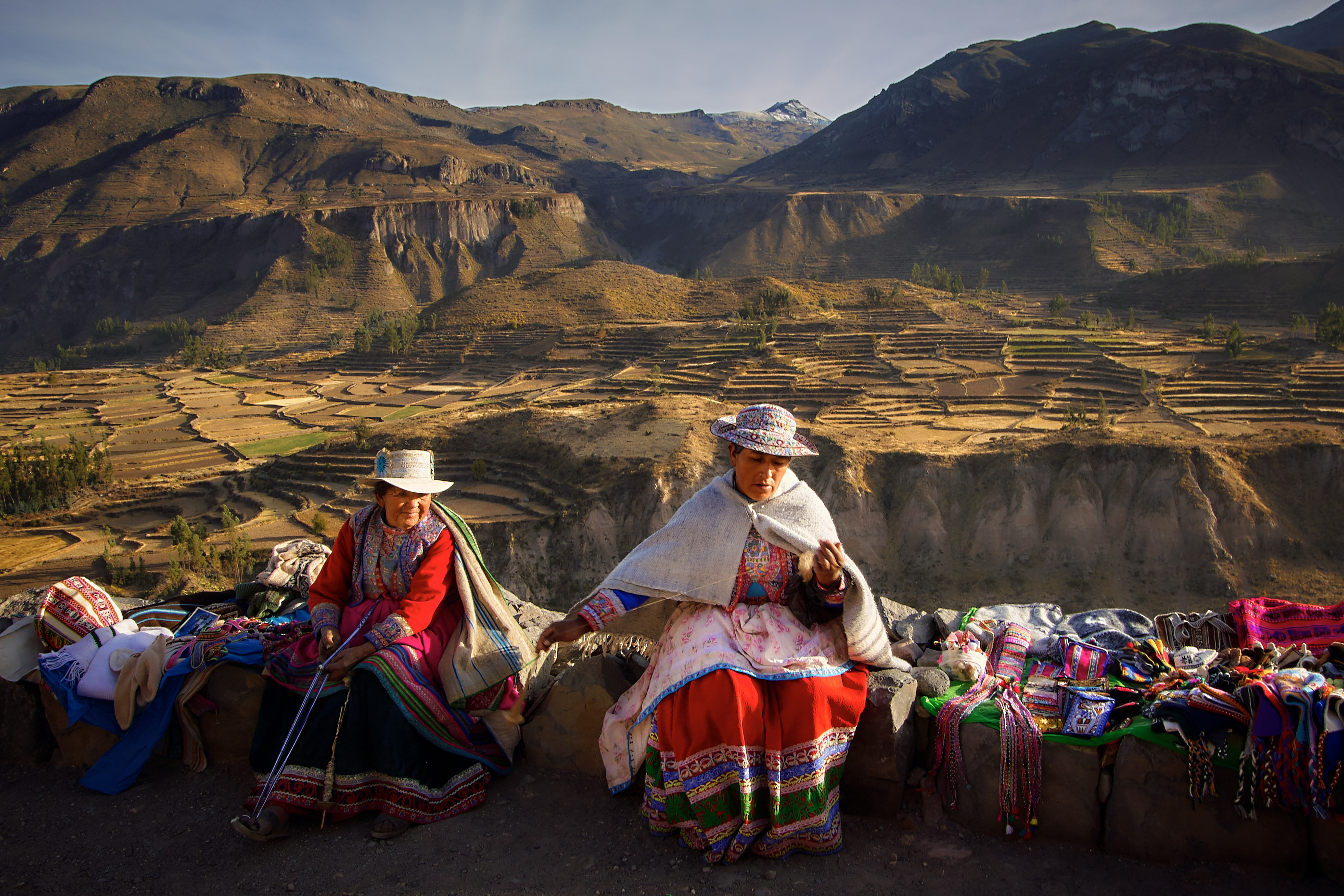 In the Colca valley